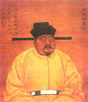 songtaizuBân-lâm-gú: Sòng Thài-tsóo Tiō Khong-īn ê uē-siōng. 宋太祖趙匡胤的畫像